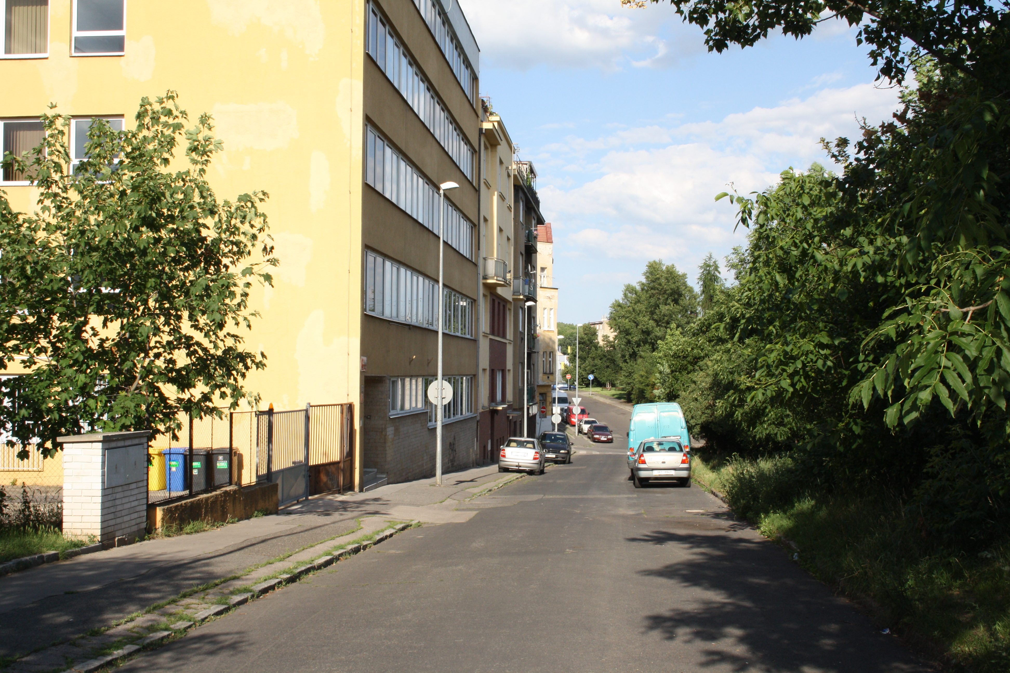 Kandertova, Praha - Libeň